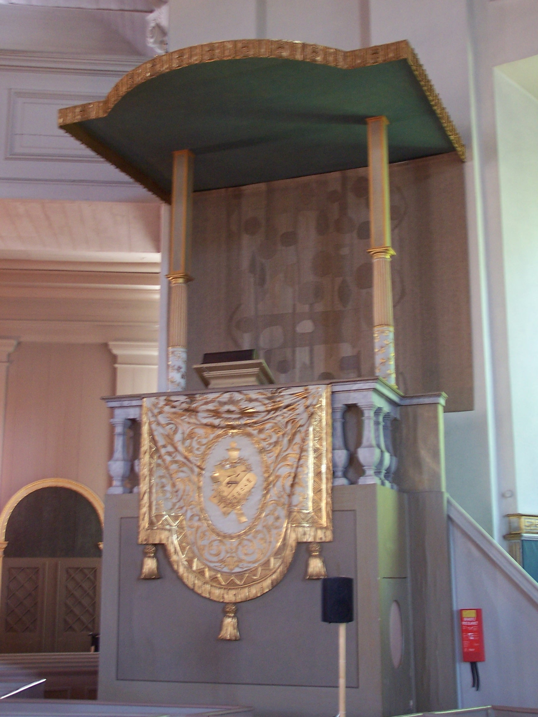 Pulpit in Trefaldighetskyrkan (Trinity church) in Karlskrona